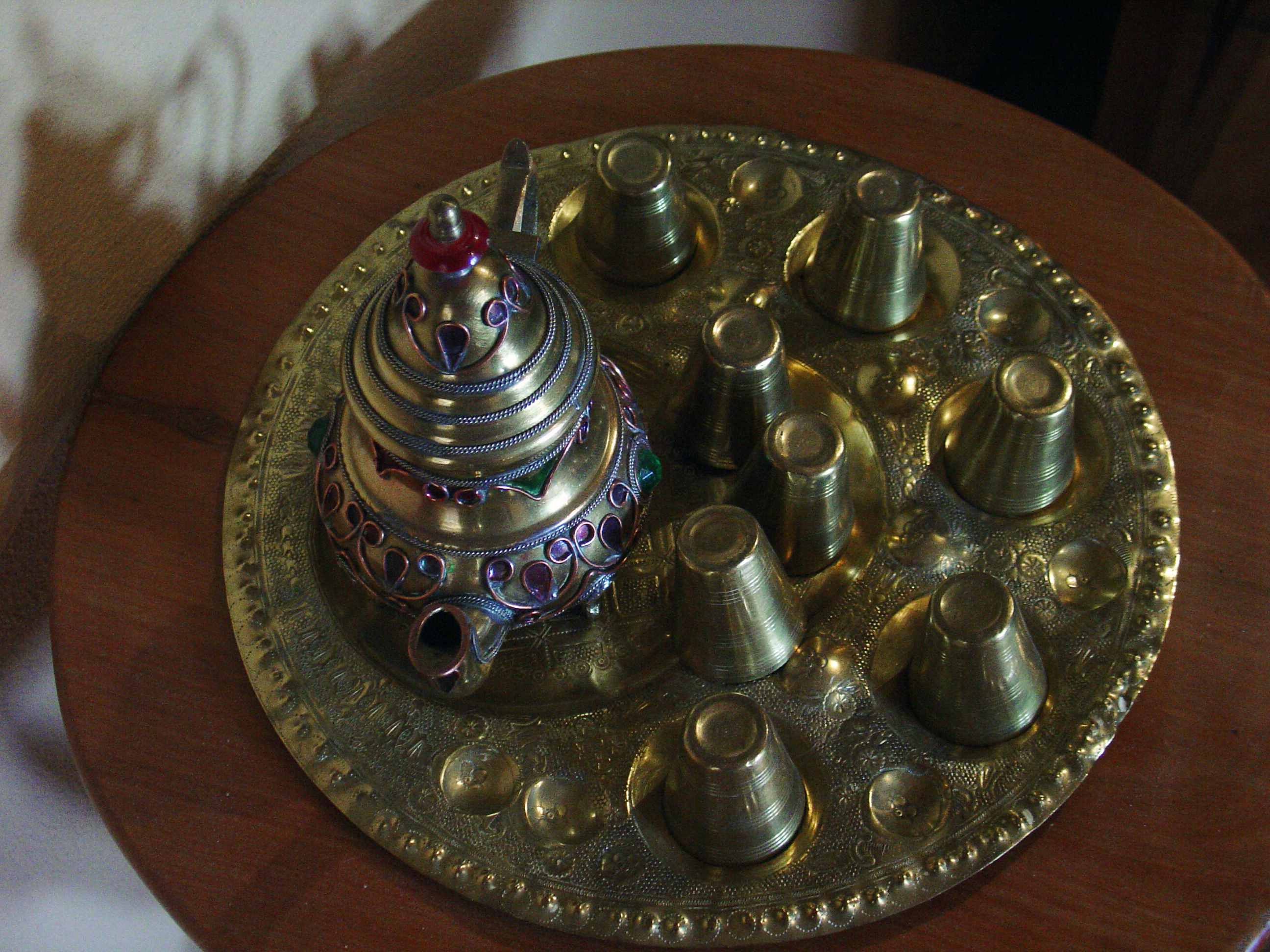 A Tea Kit from Morocco